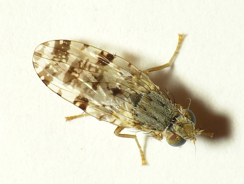 Tephritis hyoscyami male, location: The Netherlands - Rhenen - Blauwe Kamer - Gelderland